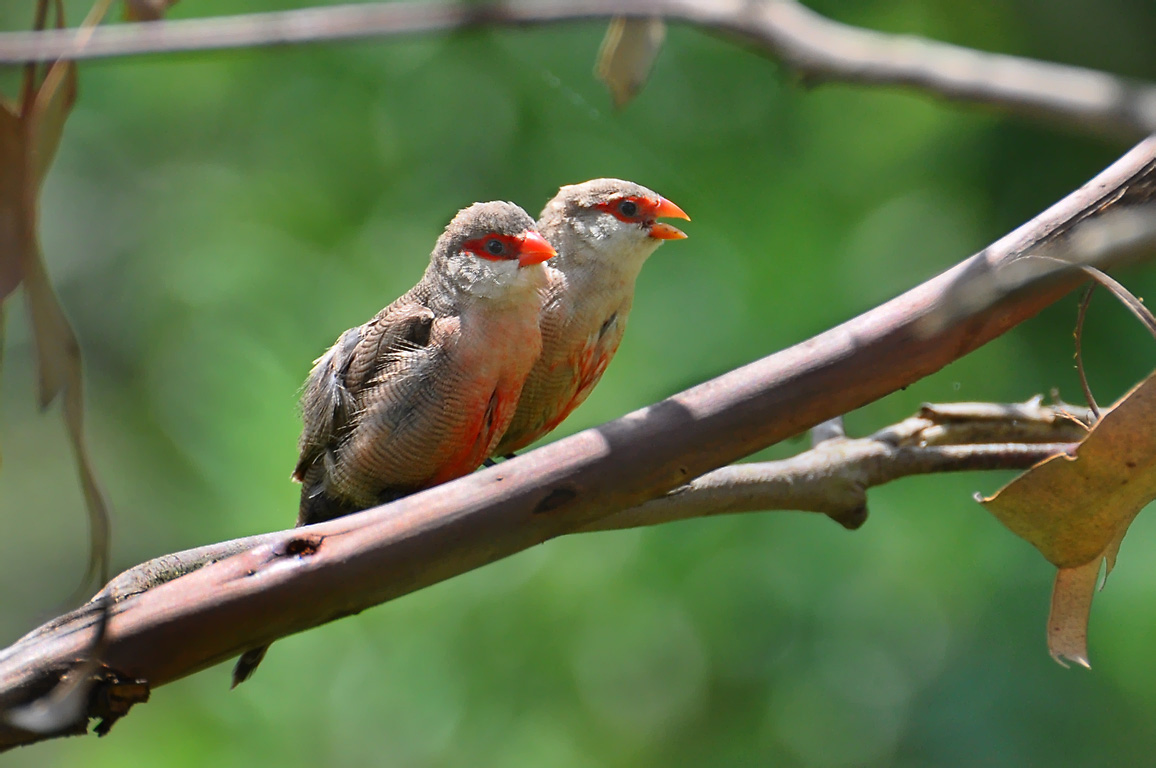 Twp Common Waxbills in Capao do Leao, Rio Grande do Sul, Brazil. An introduced species.